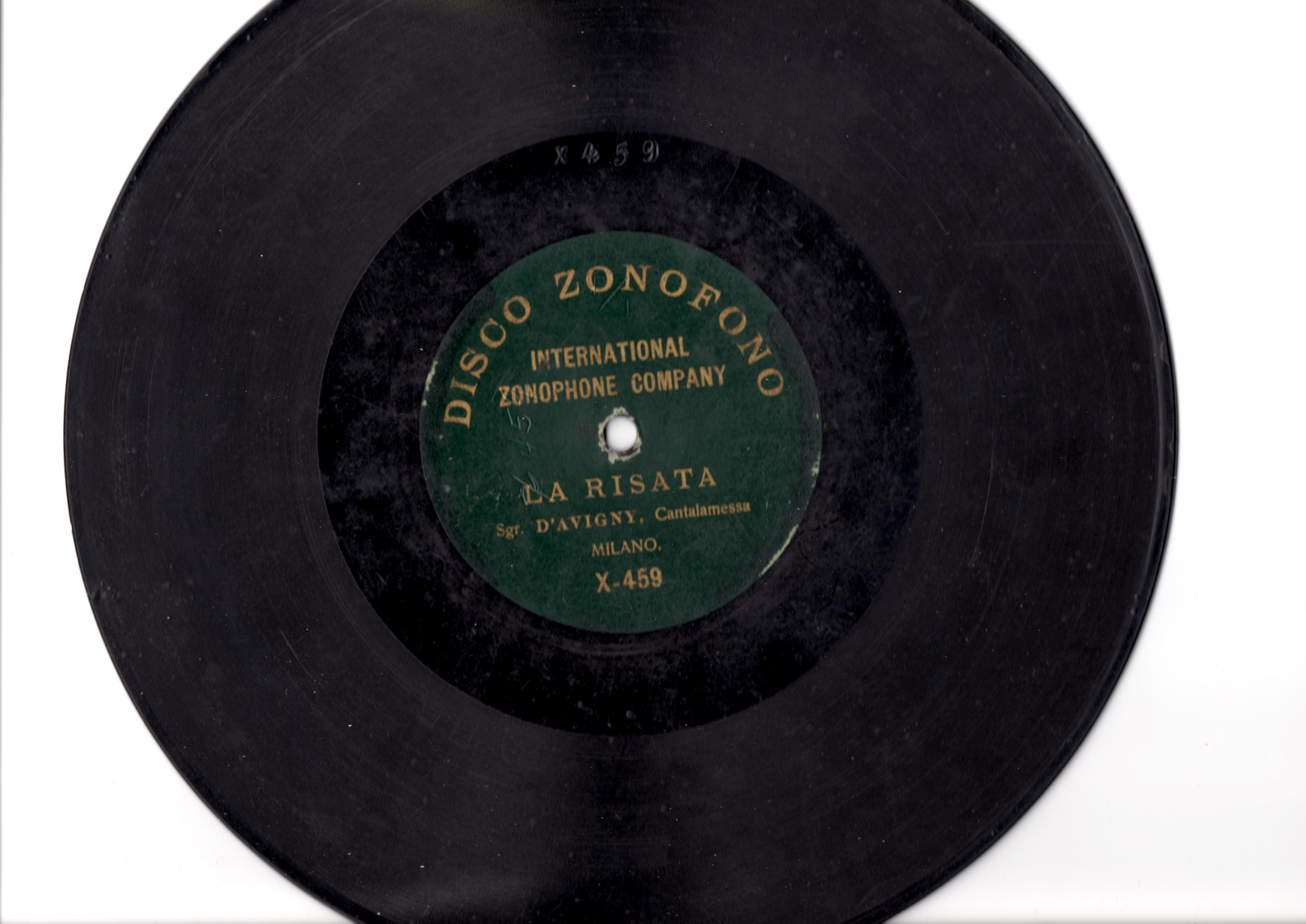 "La risata" of Berardo Cantalamessa, first songs published in Italy in 1895, 78 rpm in shellac of 1895. From my personal collection.